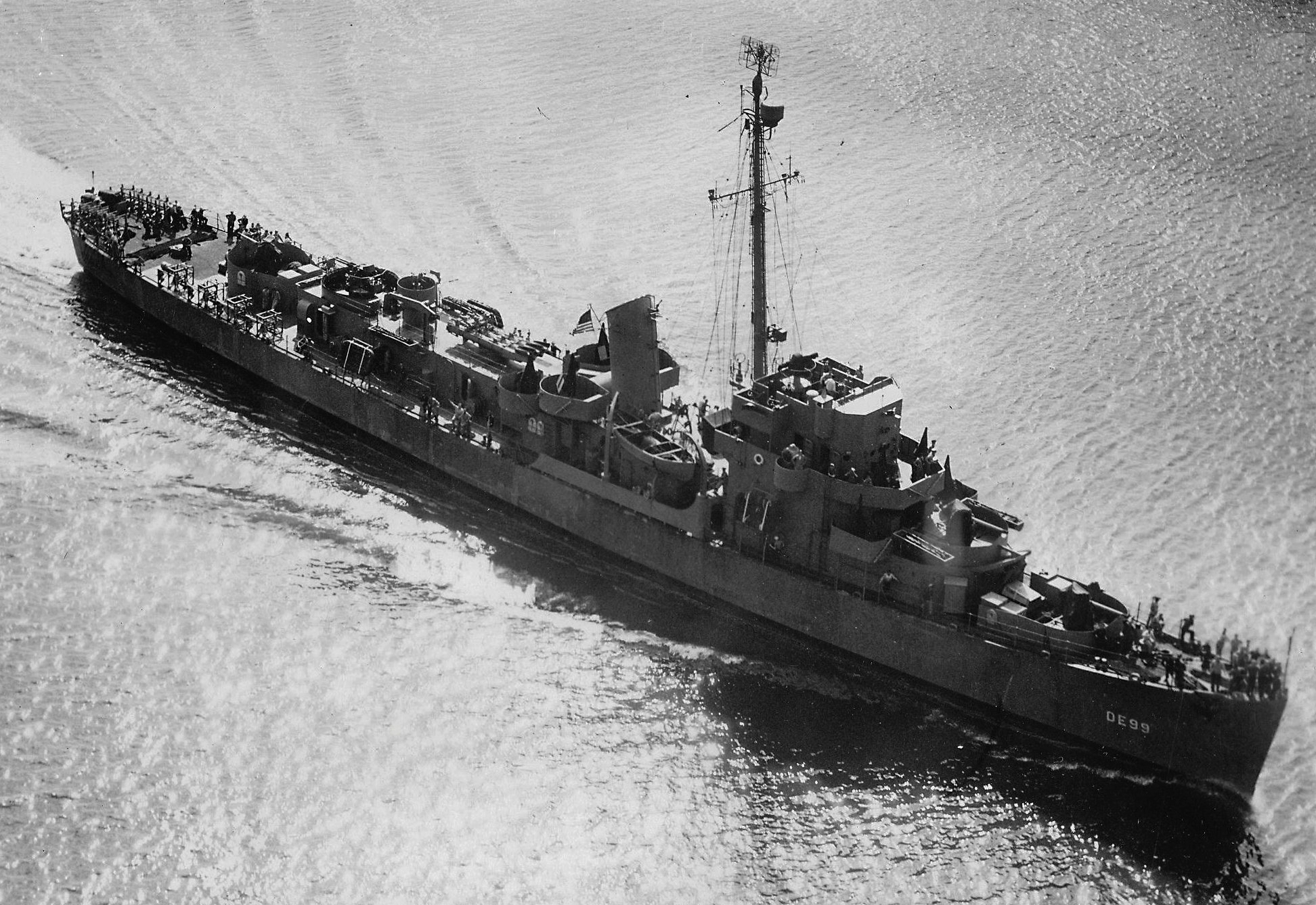 The U.S. Navy destroyer escort USS Cannon (DE-99) underway in Delaware Bay off Wilmington, Delaware (USA), on 5 September 1943.